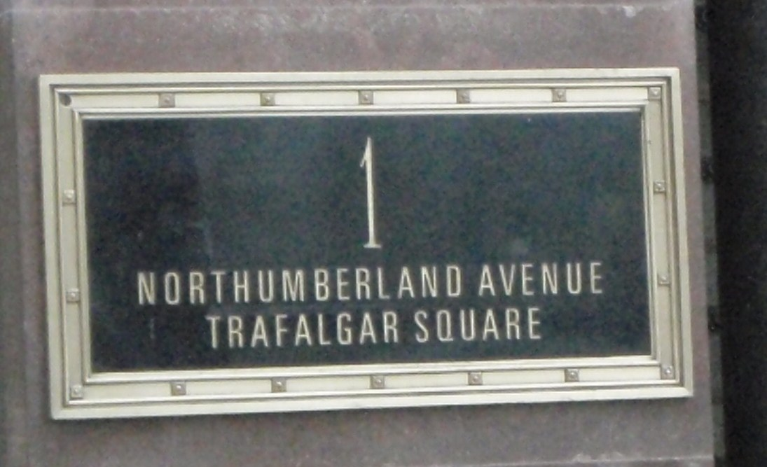 Northumberland Avenue, Trafalgar Square